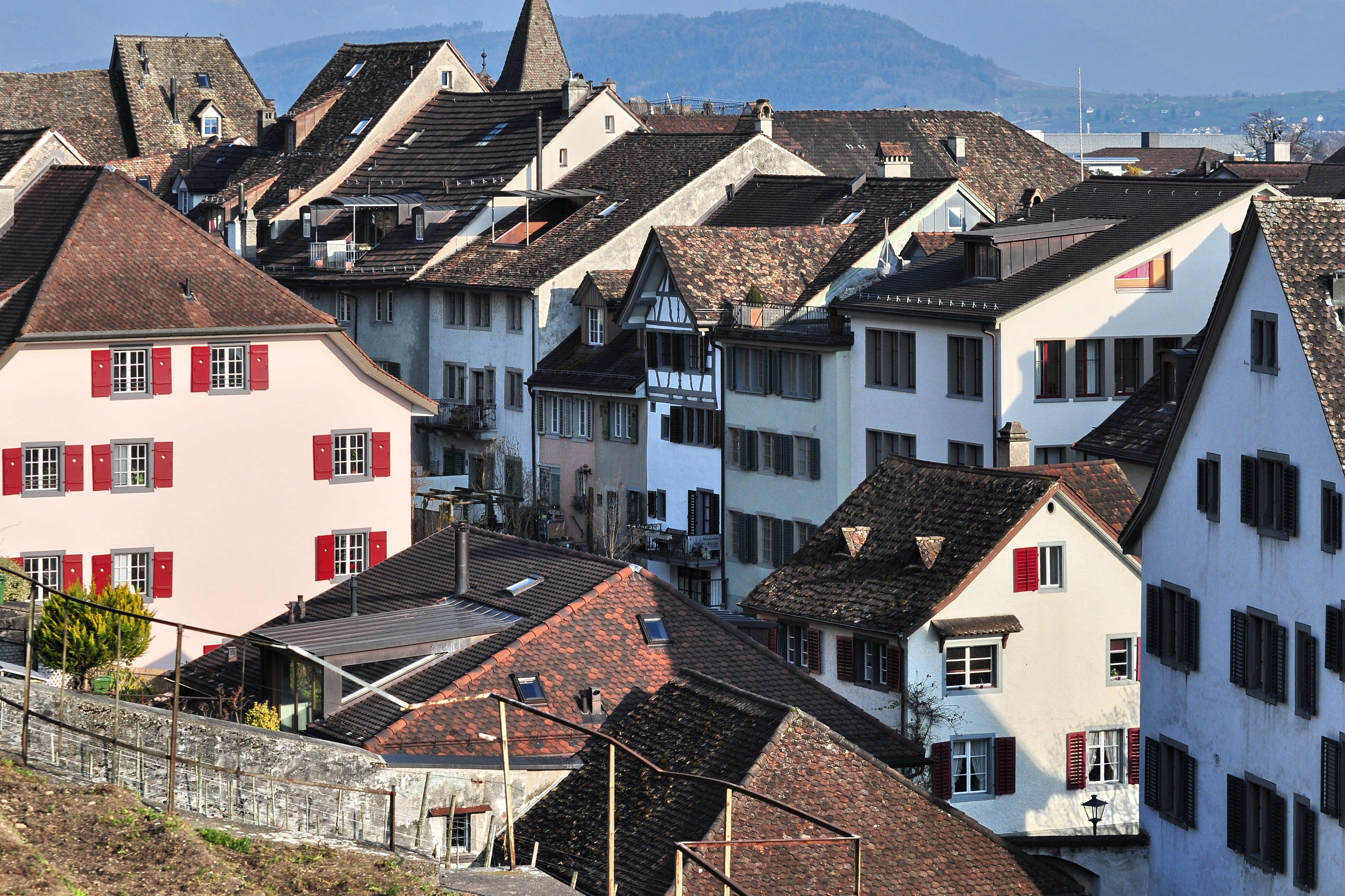 Hintergasse in Rapperswil (Switzerland) as seen from Lindenhof hill nearby the castle